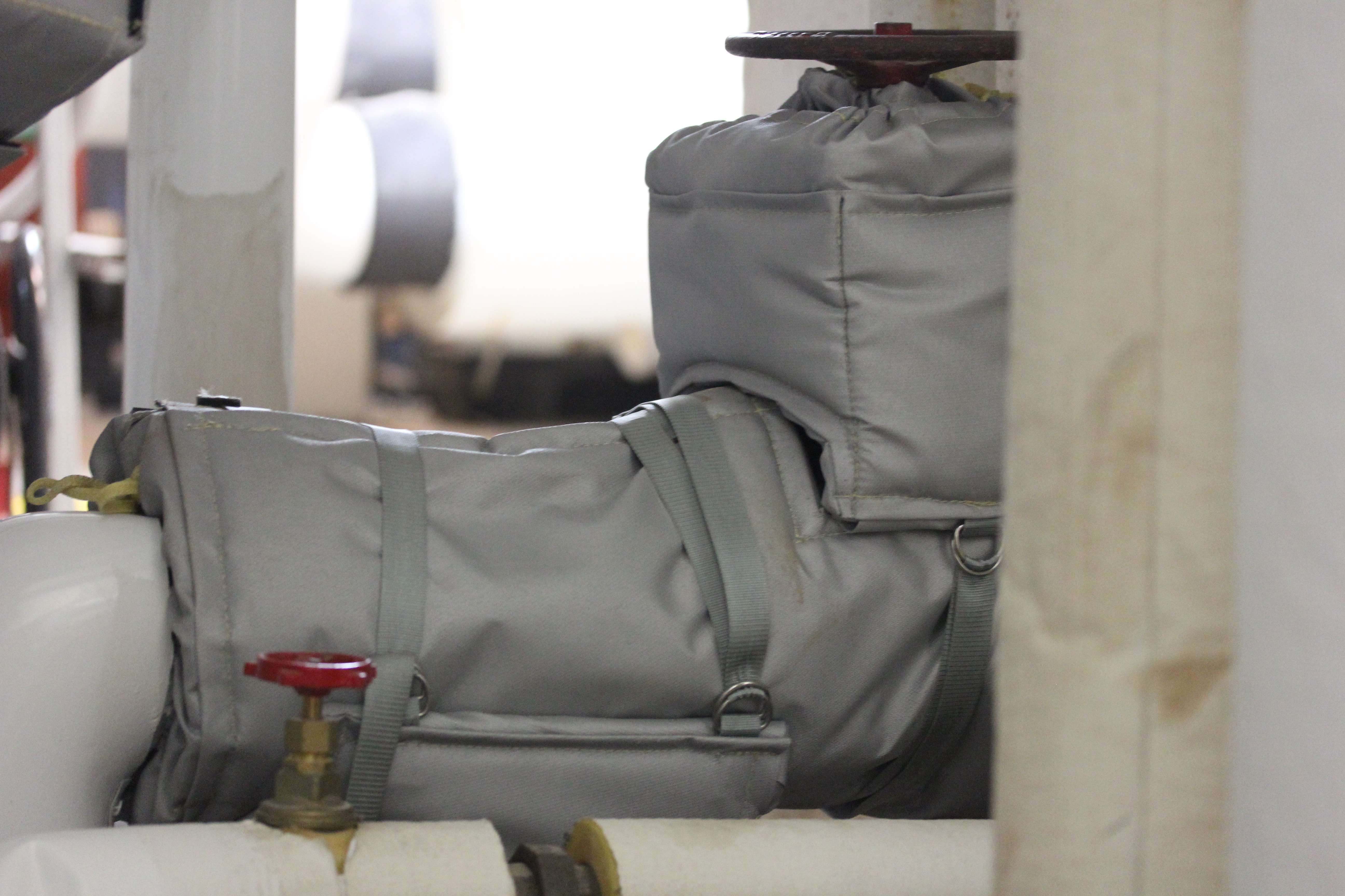 This is a removable insulation blanket installed on a component. It was made to fit this particular component.